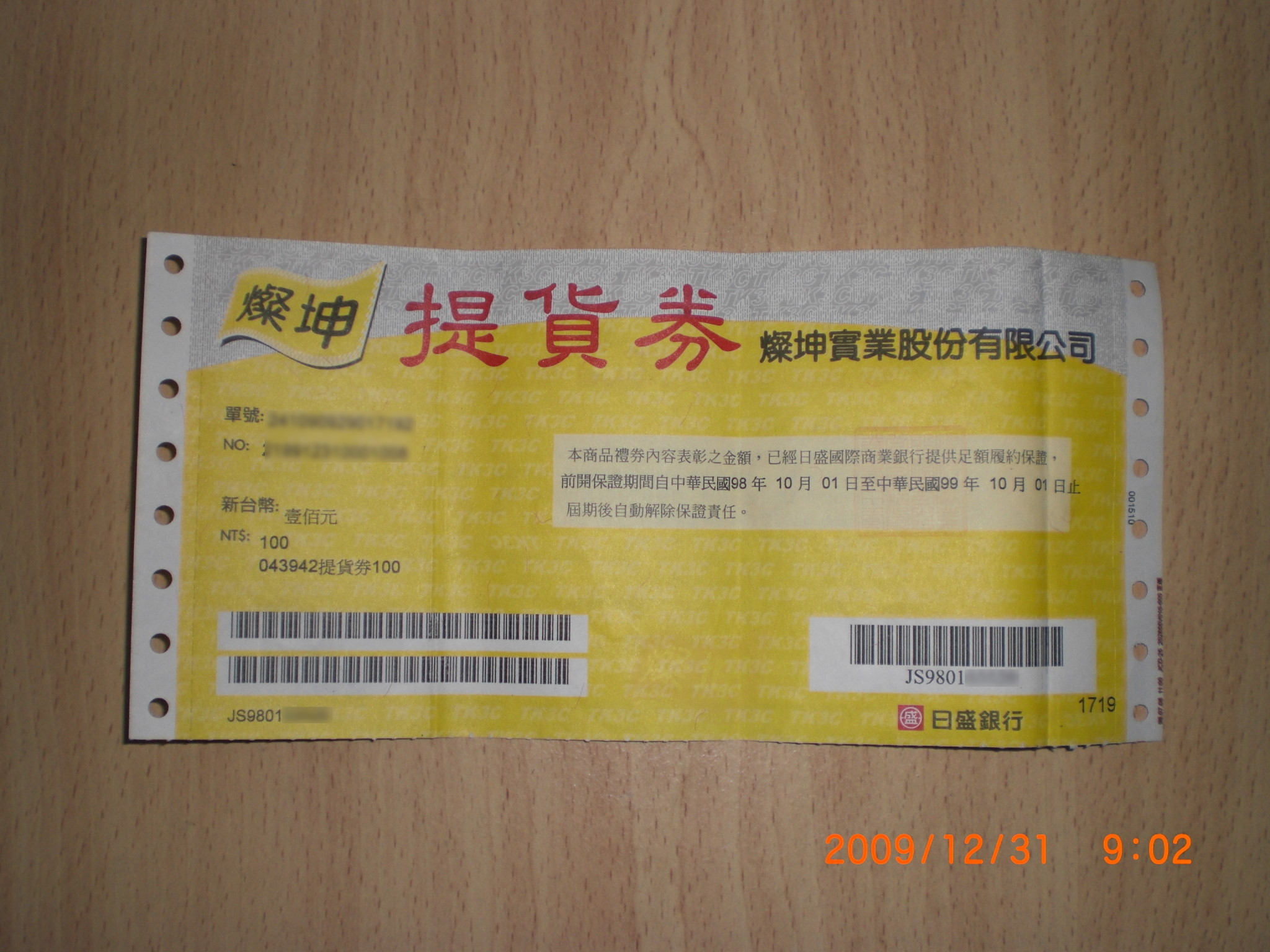 A NT$100 coupon of Tsannkuen 3C